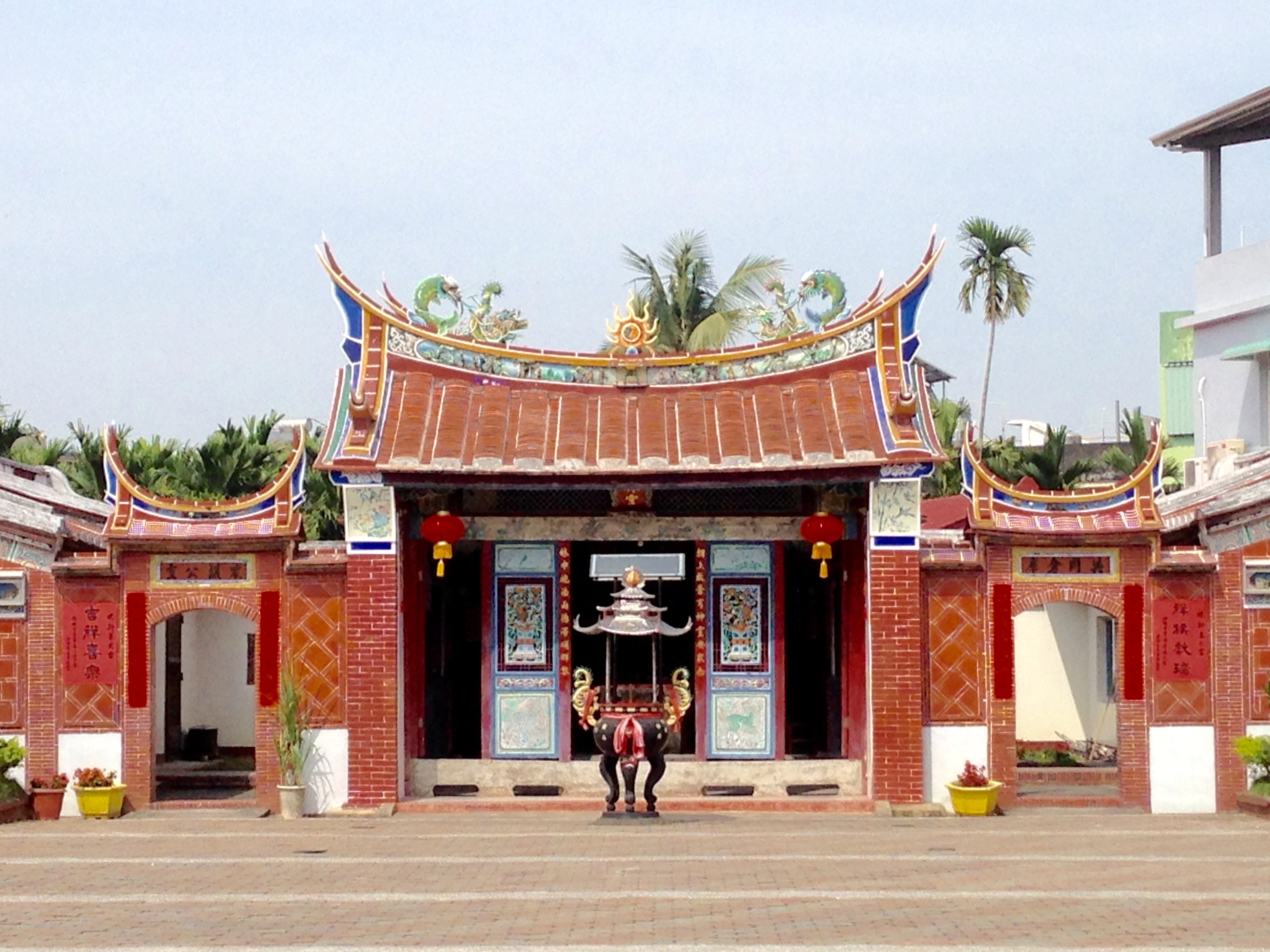 Chao-Lin Temple中文（台灣）: 潮州泗林朝林宮